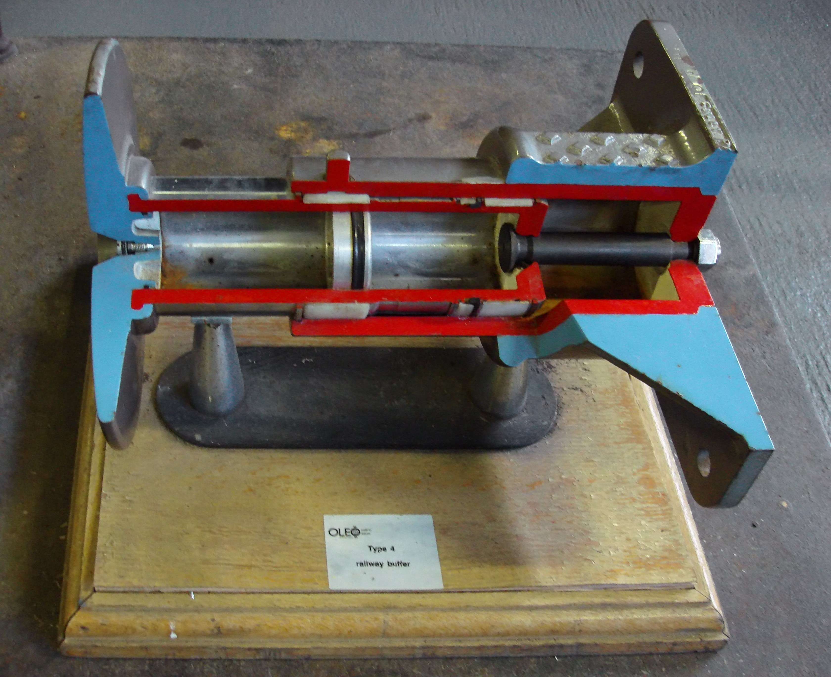 OLEO type 4 railway buffer, made by OLEO International on display at the Buckinghamshire Railway Centre